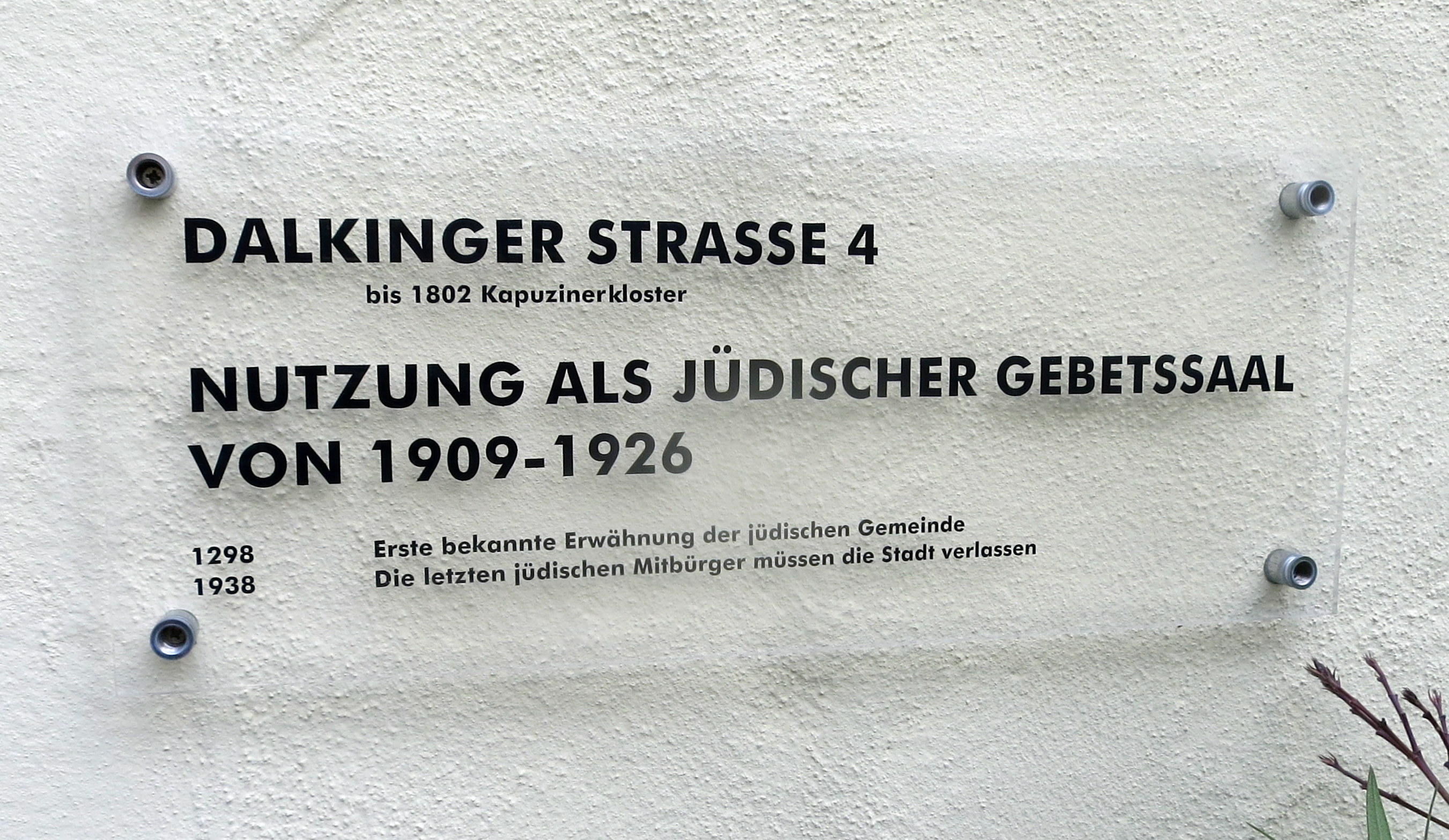 Village for children - pictures of the site Marienpflege Ellwangen